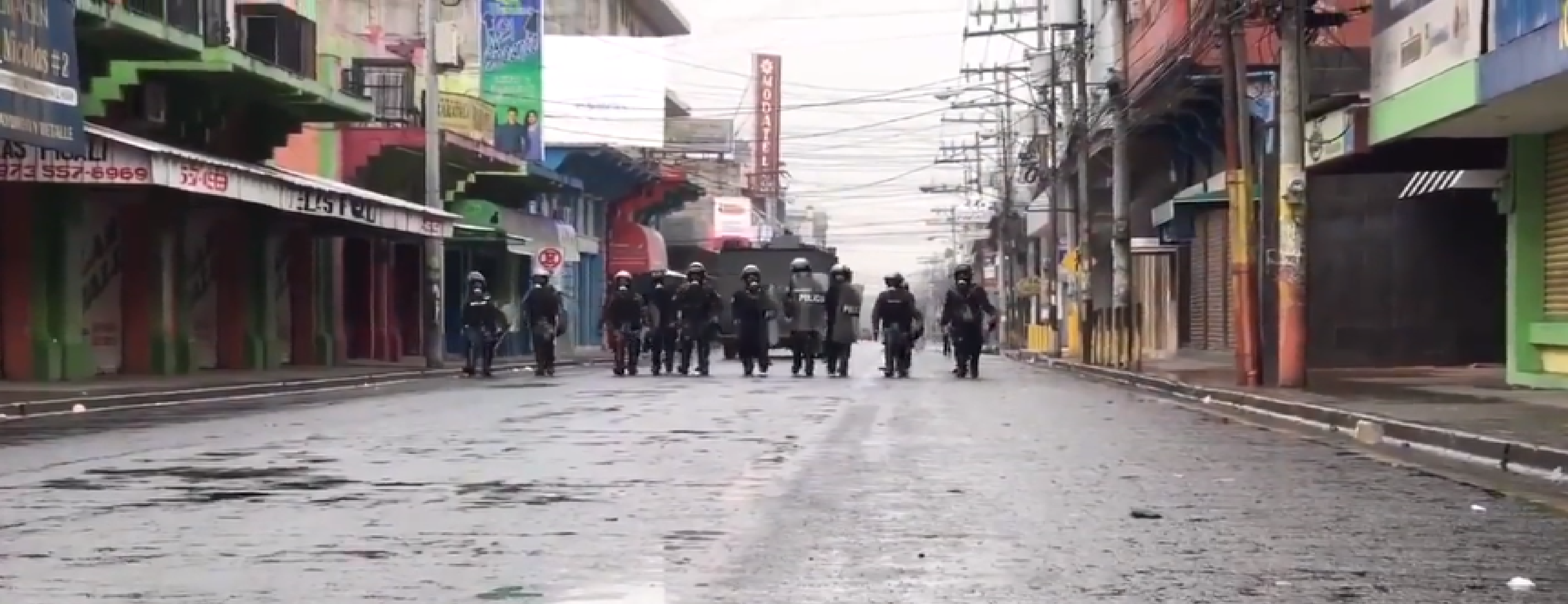 Protests and demonstrations in the post-election crisis in Honduras of 2017-2018.